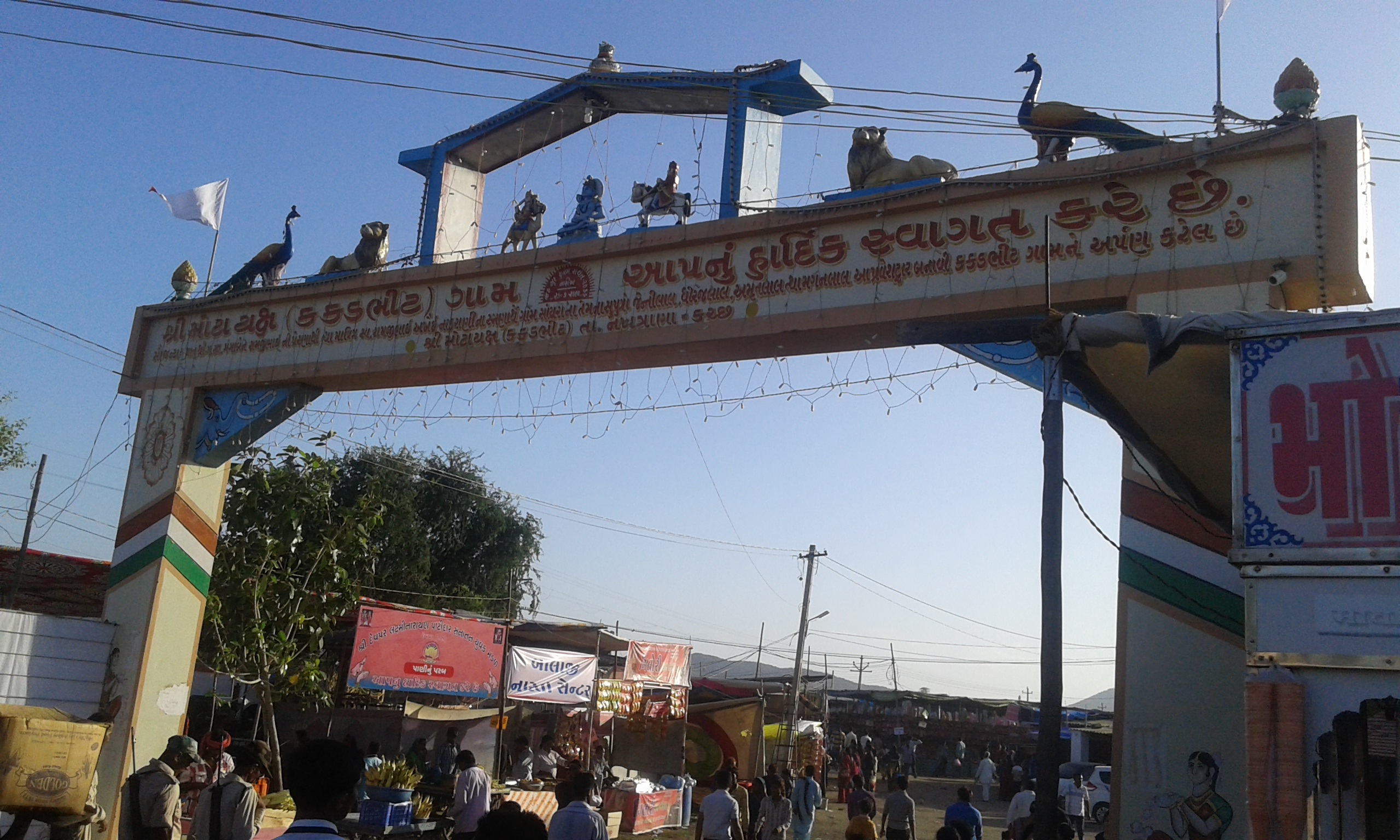 Jakh Bahotera are group of folk deities worshiped in Kutch region of Gujarat, India. Image of the gate of village of Mota Yaksh (Kakadbhit) is taken from Nakhtrana-Bhuj Highway, Kutch, Gujarat, India.